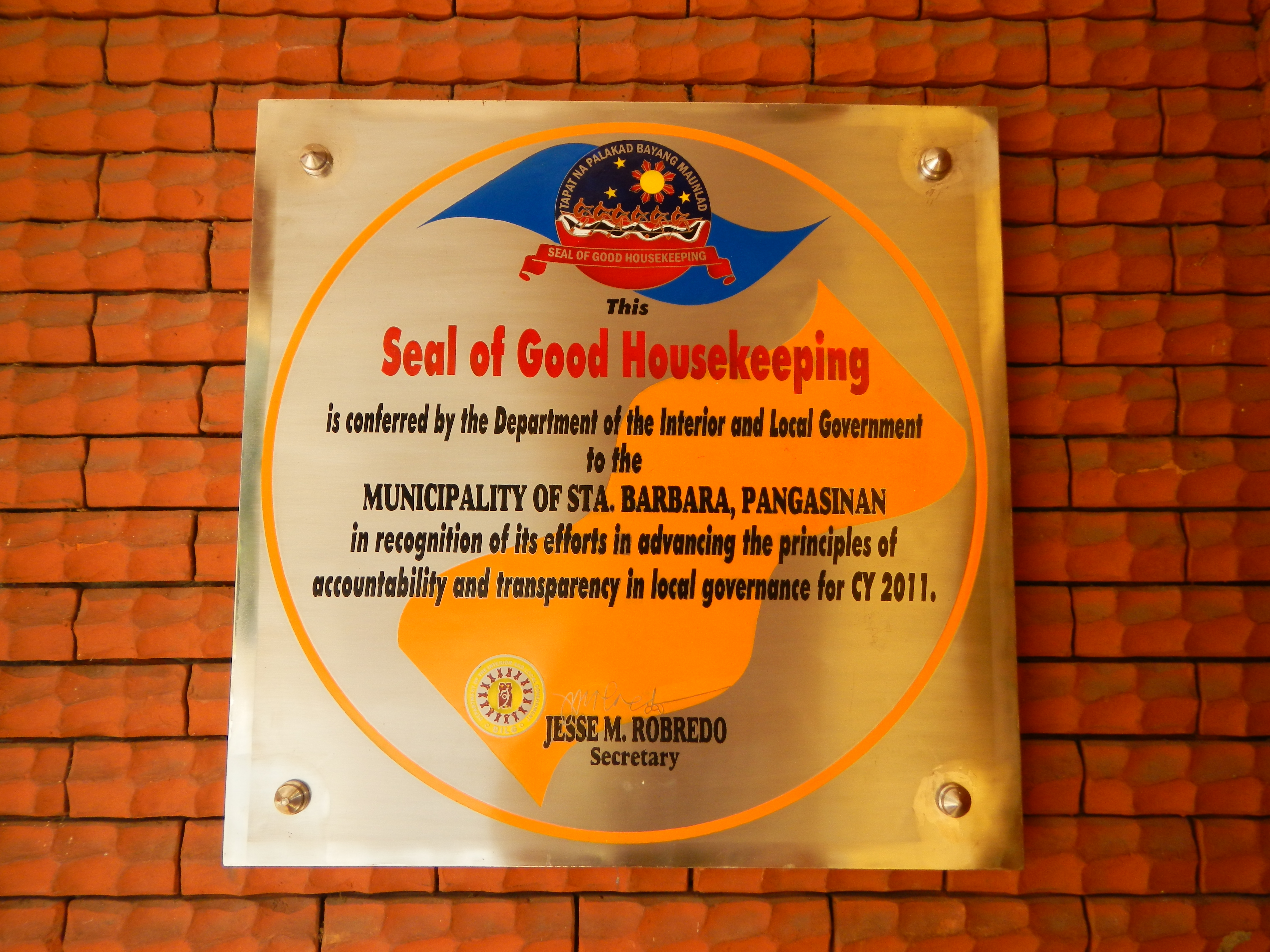 The "Seal of Good Housekeeping", a plaque awarded in 2011 to the municipality of Santa Barbara (official website) by the Philippines government's Department of the Interior and Local Government. It recognizes the city's "efforts in advancing the principles of accountability and transparency in local governance."